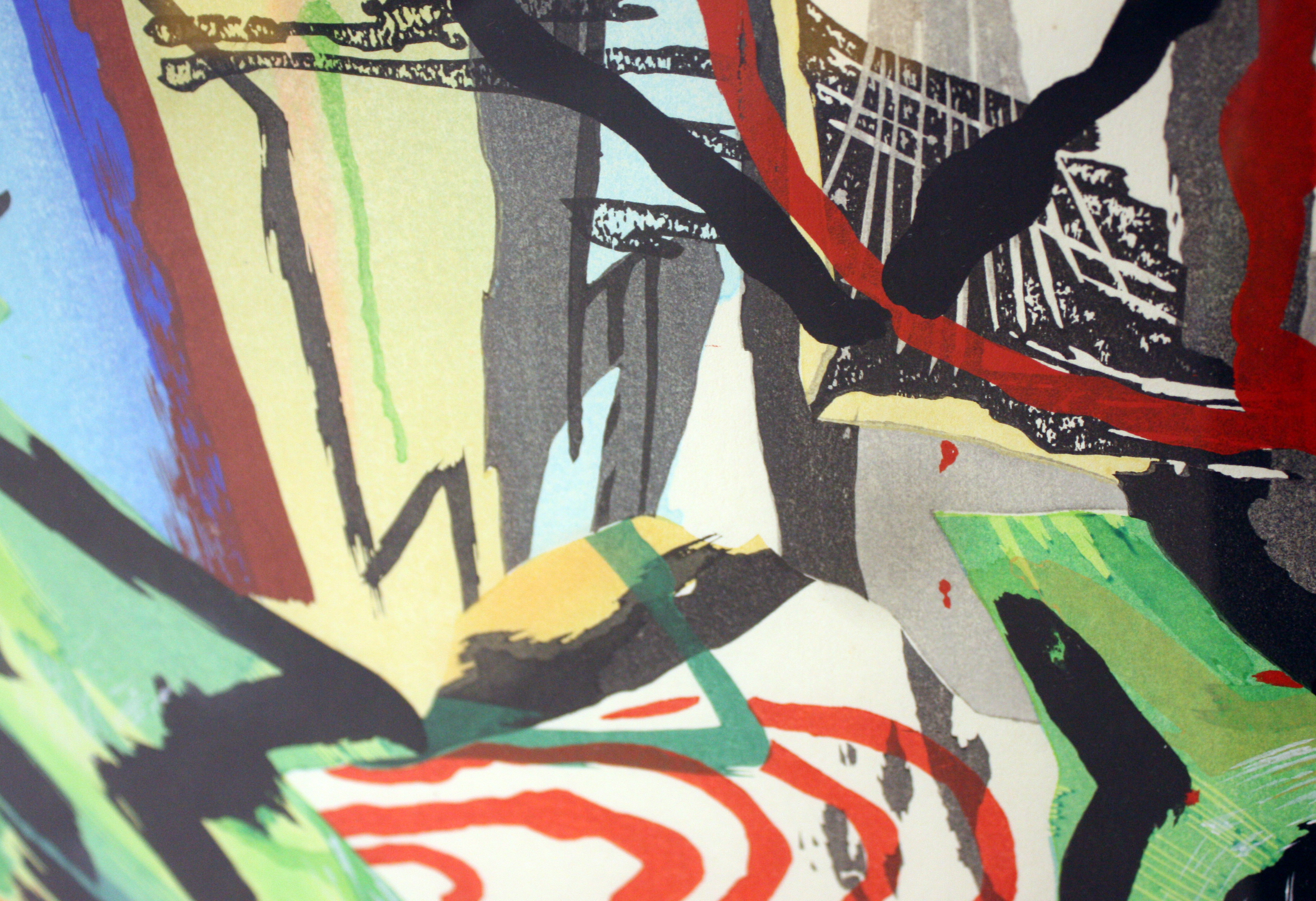 Yoyogi (State II), 1984. Published by Crown Point Press, San Francisco, CA. Image courtesy of University of Michigan Library.